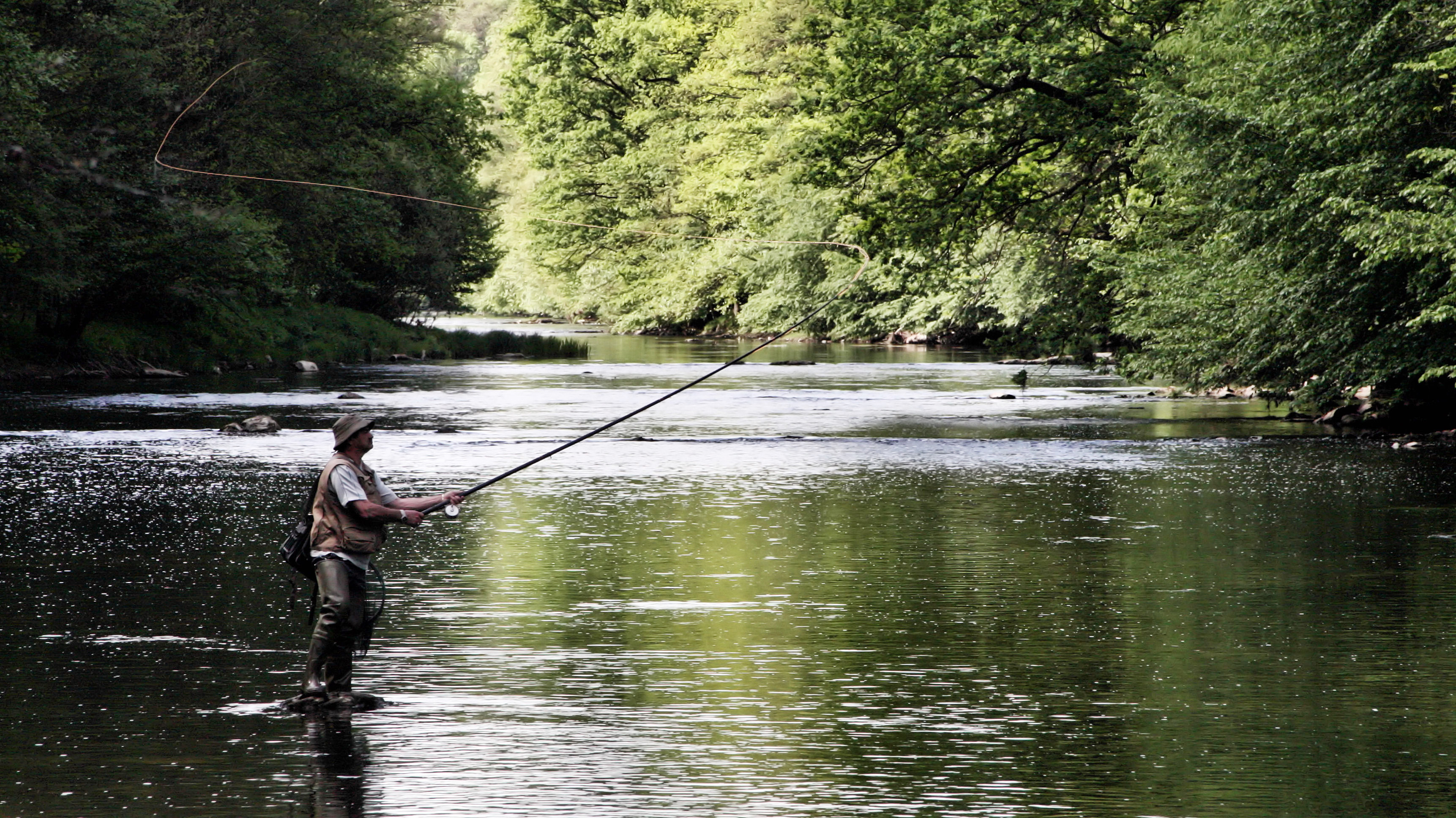 The river Semois near Sainte Cécile (Florenville) in the Belgian province of Luxembourg